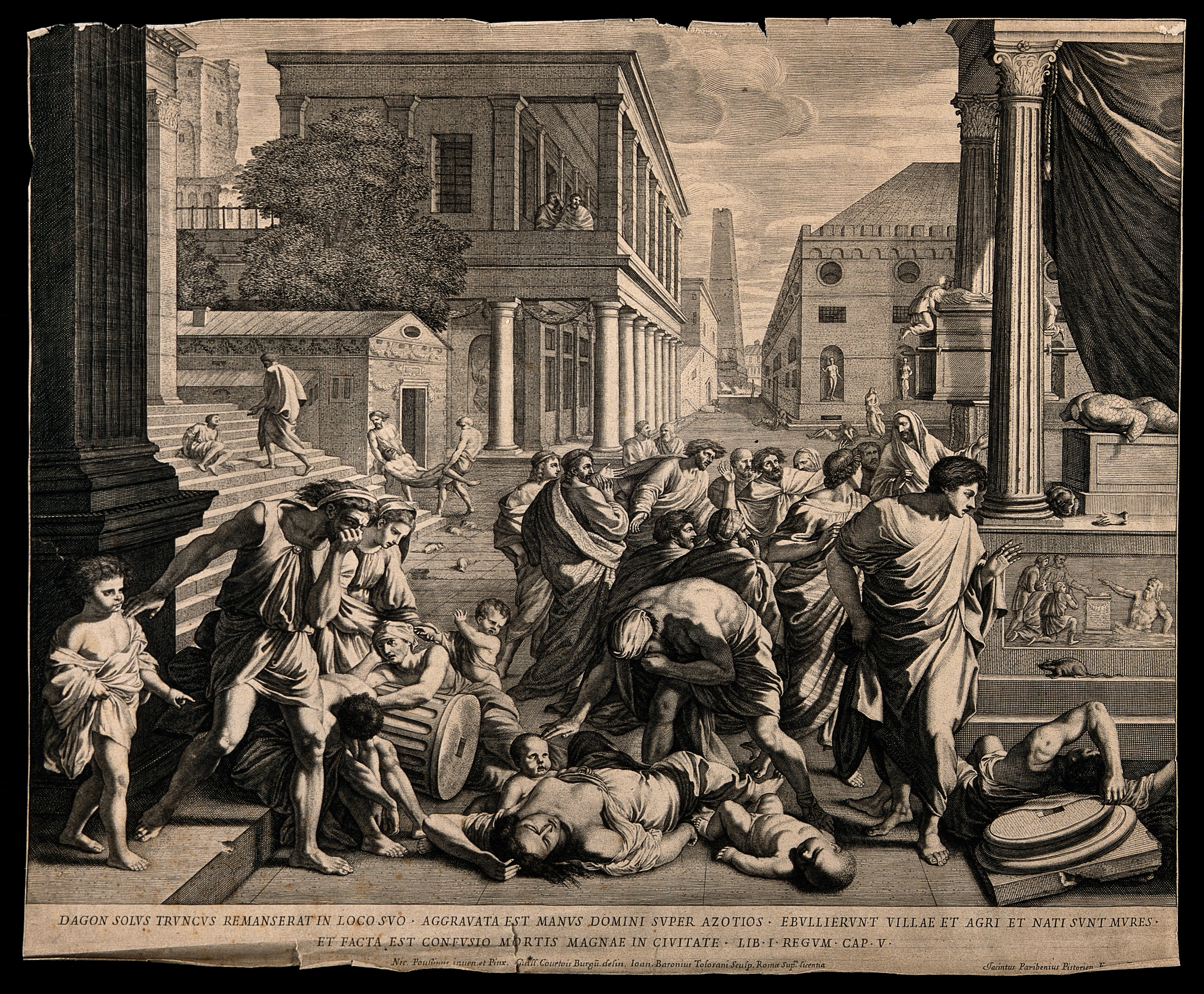 The plague of the Philistines at Ashdod. Engraving by G. Tolosano after G. Courtois after N. Poussin. Iconographic Collections Keywords: tolosano, giovanni baron; intaglio; courtois, guillaume 1628-1679; Guillaume Courtois; Epidemics; Nicolas Poussin; poussin, nicolas 1594-1665; Plague; Giovanni Tolosano; ic